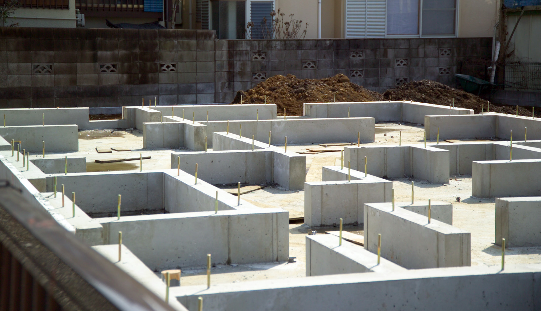 Foundation for a new house in Japan.